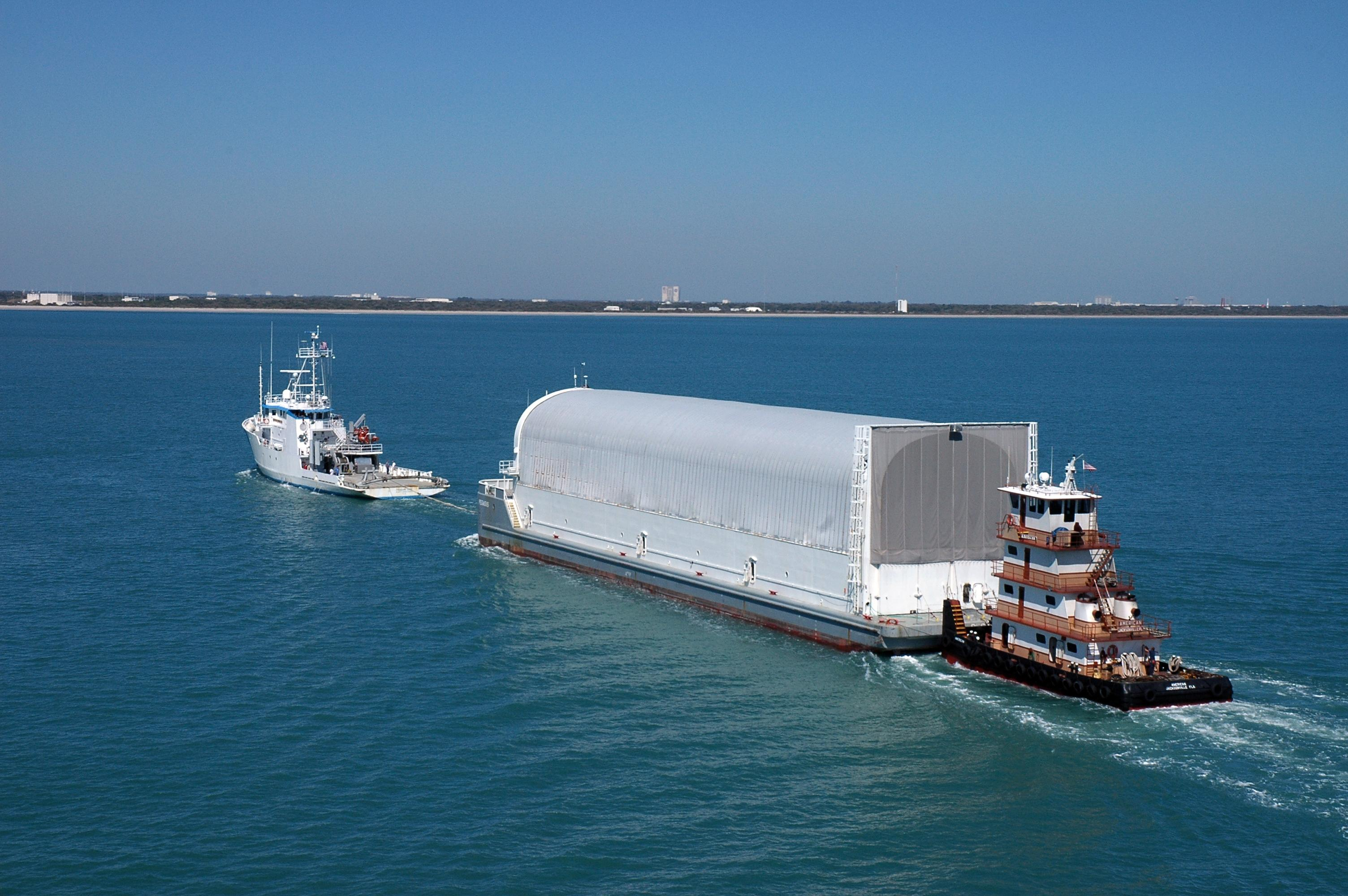 The Pegasus barge, towed by the solid rocket booster retrieval ship Freedom Star and towboat American, approaches Port Canaveral. The barge carries the redesigned external fuel tank that will launch the Space Shuttle Discovery on the next shuttle mission, STS-121. It left the Michoud Assembly Facility in New Orleans Feb. 25, making the voyage around the Florida Peninsula in five days. Next stop for the barge is the turn basin near NASA Kennedy Space Center's Vehicle Assembly Building. After off-loading, the tank will be moved into the Vehicle Assembly Building and lifted into a checkout cell for further work. The tank, designated ET-119, will fly with many major safety changes, including the removal of the protuberance air load ramps. A large piece of foam from one of the ramps came off during the July 2005 launch of the last shuttle mission. The ramps were removed to help eliminate a potential source of damaging debris to the space shuttle. Launch of Discovery is scheduled for May 2006.